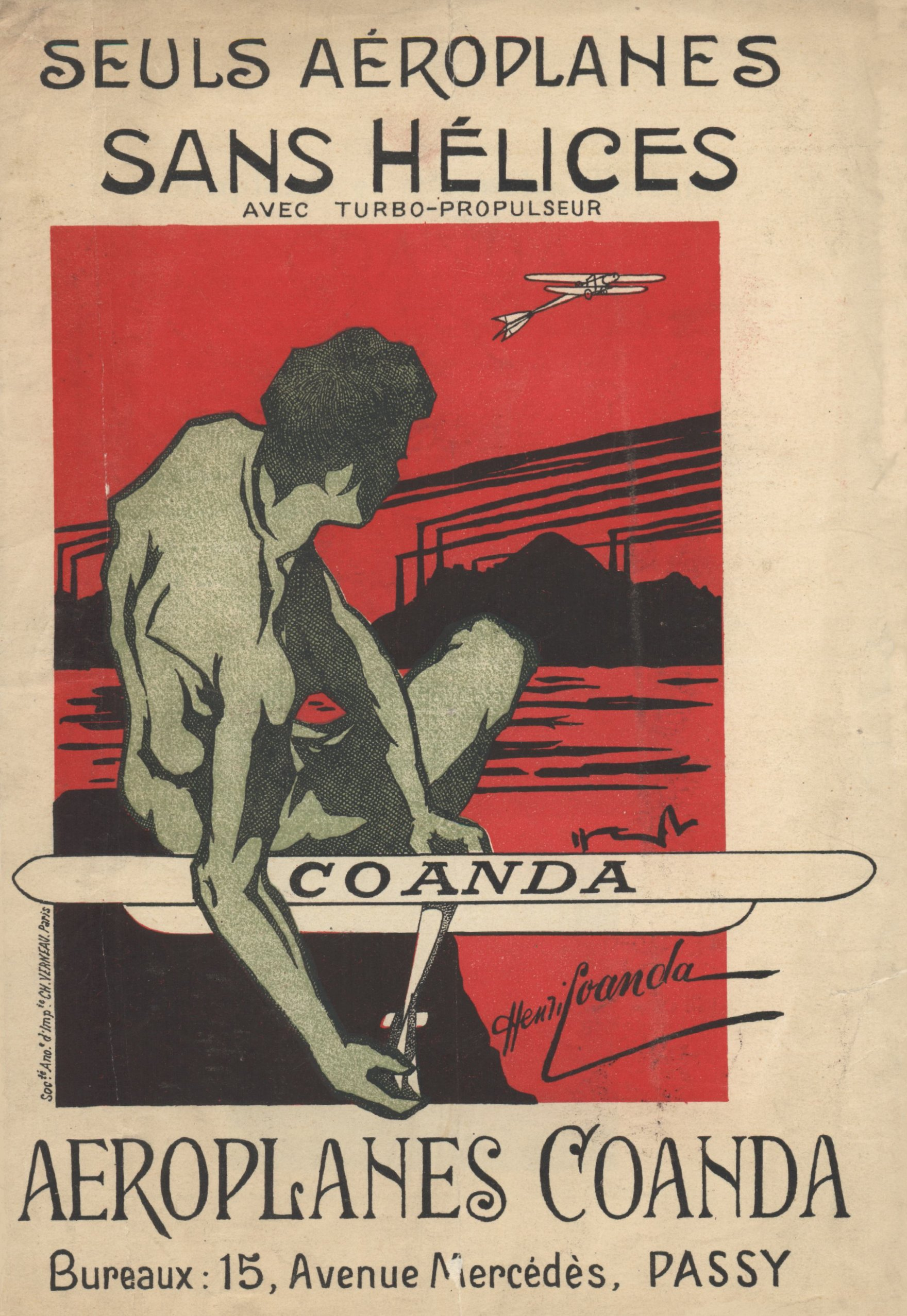 Front cover of the sales brochure of the Coanda-1910 aircraft, shown at the Paris salon in October 1910 and abandoned afterward. Cover image is artwork by Charles Vernau of Paris.